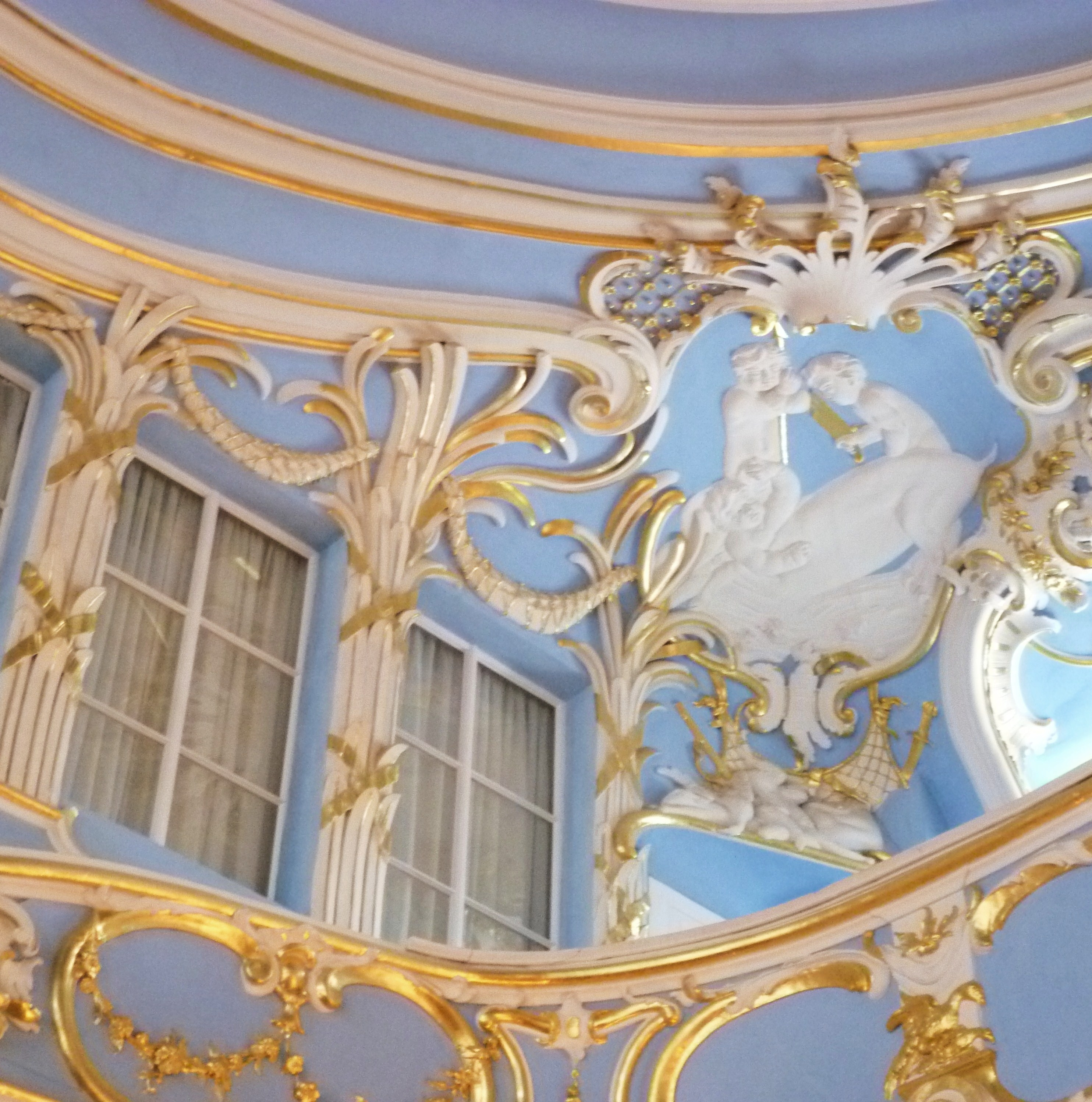 Blue Hall, Sondershausen Palace, 1760th